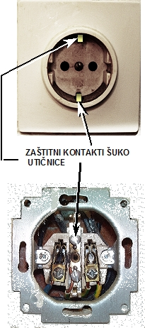 An installation of a TN-C network (Schuko socket) that is no longer permitted for the following reasons: The neutral and protective earth wires should be separated from each other till their join point at distribution substation. As old distribution boards and old fuse boxes have single-colored wires for all poles (for example, in apartment buildings in the USSR all wires were white), the phase and zero wires could easily be switched by accident. If this happened, all devices connected to such PE-pole metal cases would have a phase pole on them. People touching metal cases would get an electrical shock. Such methods of wiring were very popular after the fall of the USSR fall in ex-USSR countries, when the first devices with Schuko sockets appeared in those countries. However, existing installations are not required to be changed.